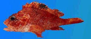 Picture of Scorpaena loppei